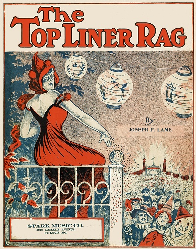 "The Top Liner Rag" by Joseph Lamb; sheet music cover, 1916